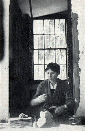 "Margaret Michell studying a specimen collected in the field, Montagu, Cape Province, 1922"